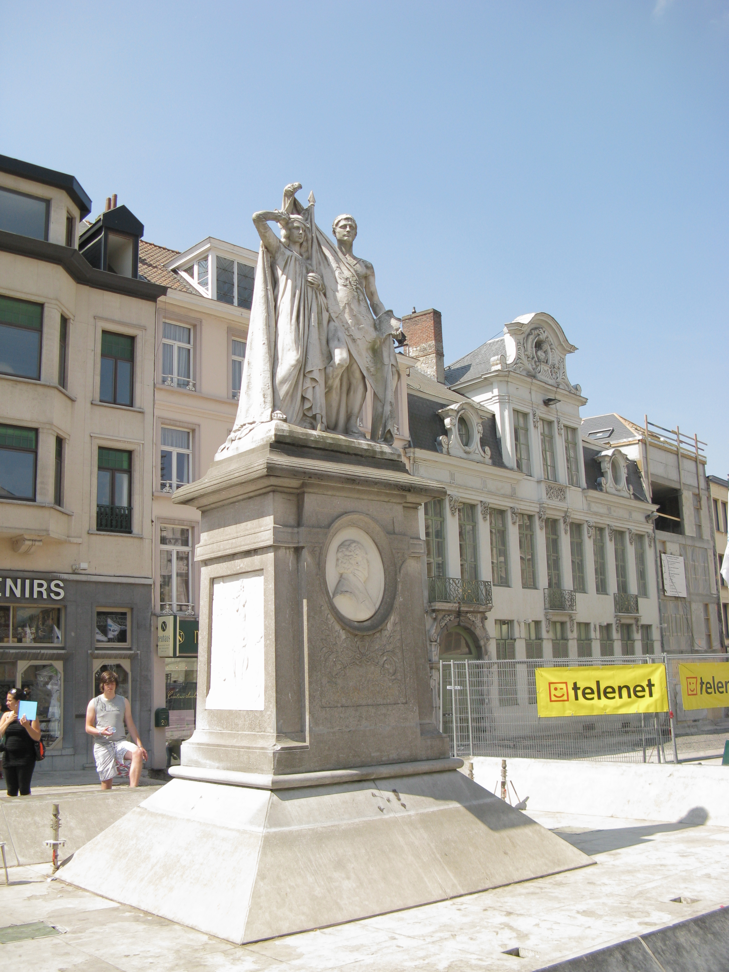 Jean-François Willems Monument, Place Saint-Bavon, Ghent, Belgium (1899), Isidore De Rudder, sculptor, Paul Hankar, architect.